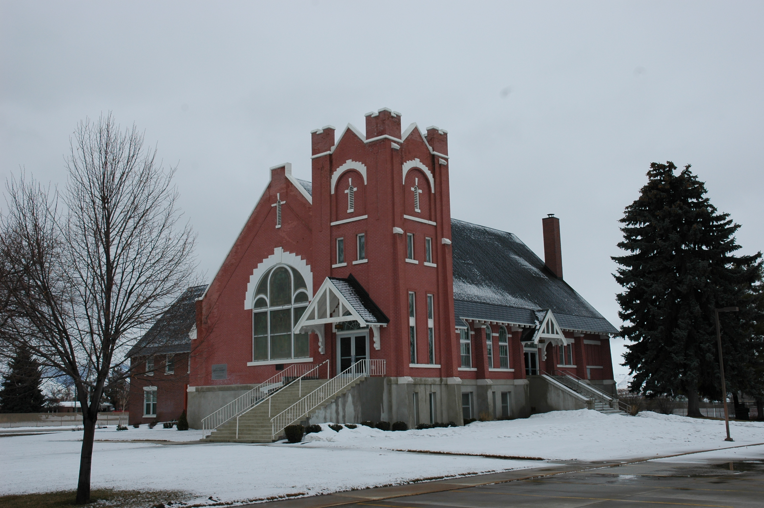 The Malad Second Ward Tabernacle, an early meetinghouse of The Church of Jesus Christ of Latter-day Saints located at 20 S. 100 West, Malad, Idaho, United States.